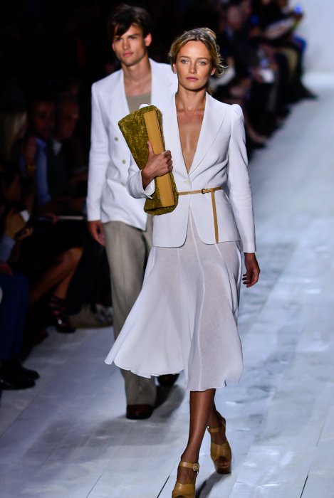 A model walks the runway at the Michael Kors Spring/Summer 2014 show at New York Fashion Week, September 2013.